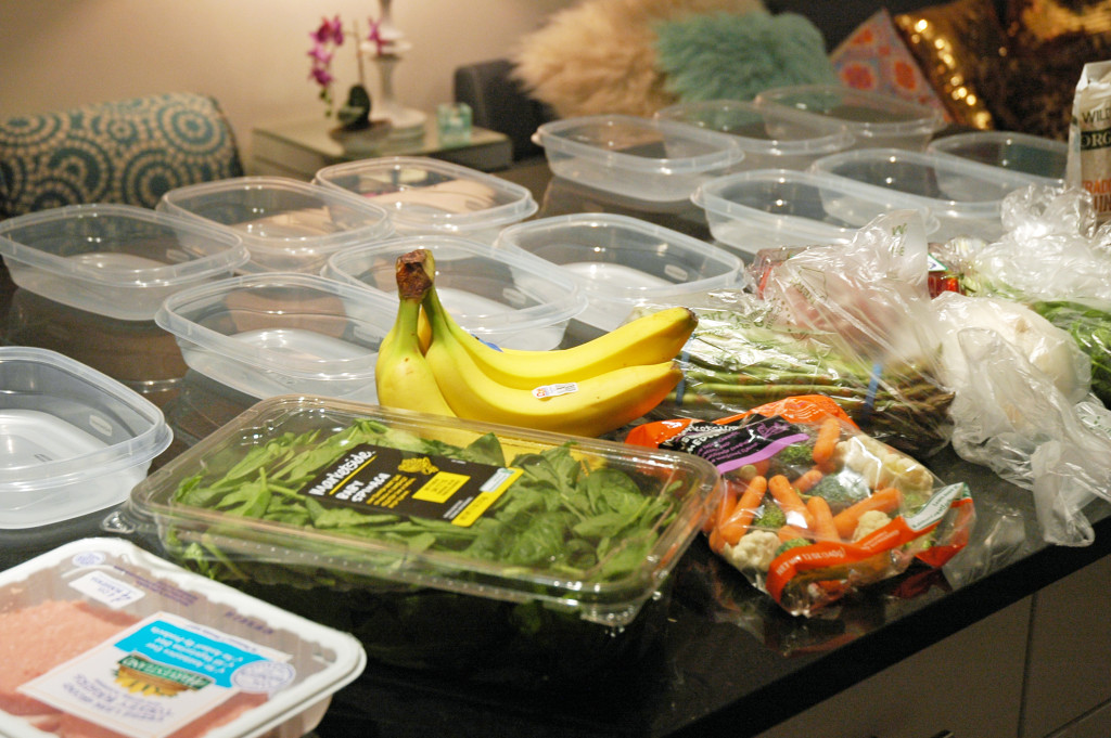 Photograph of meal preparation set up